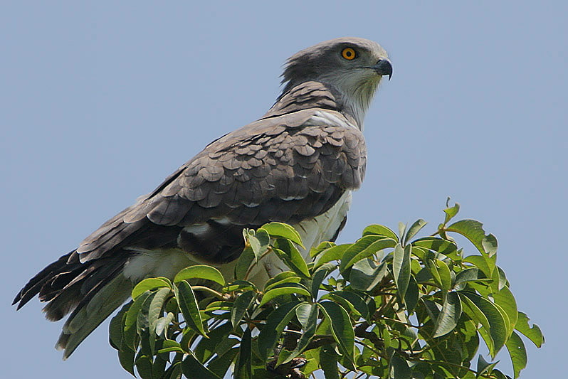 Image taken near Kampanti, The Gambia. A perched adult bird.